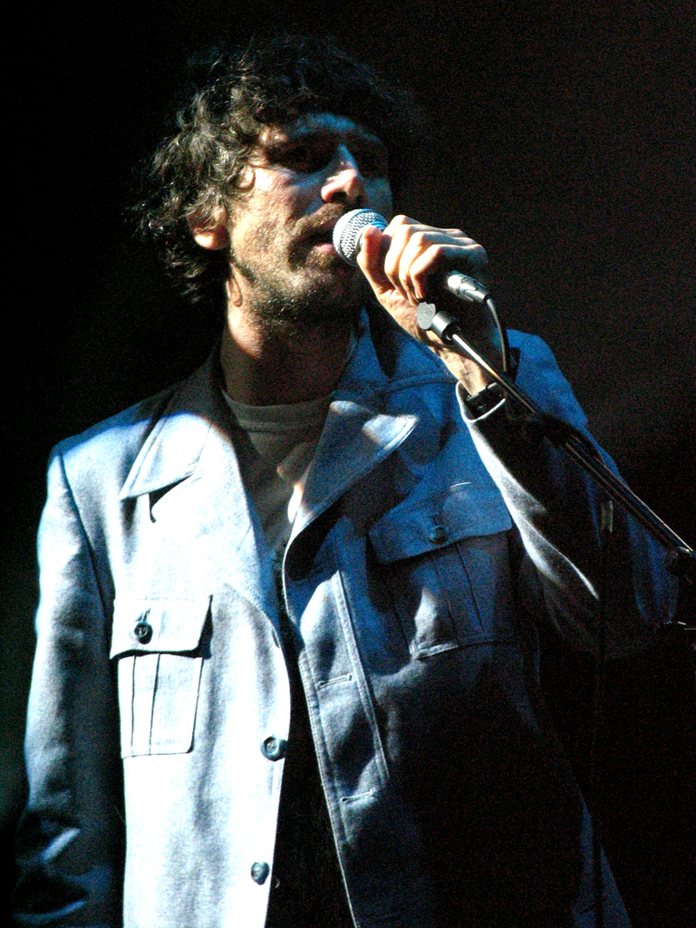 Gruff Rhys of the Super Furry Animals performing with Neon Neon at Summercase, Barcelona, July 2008.